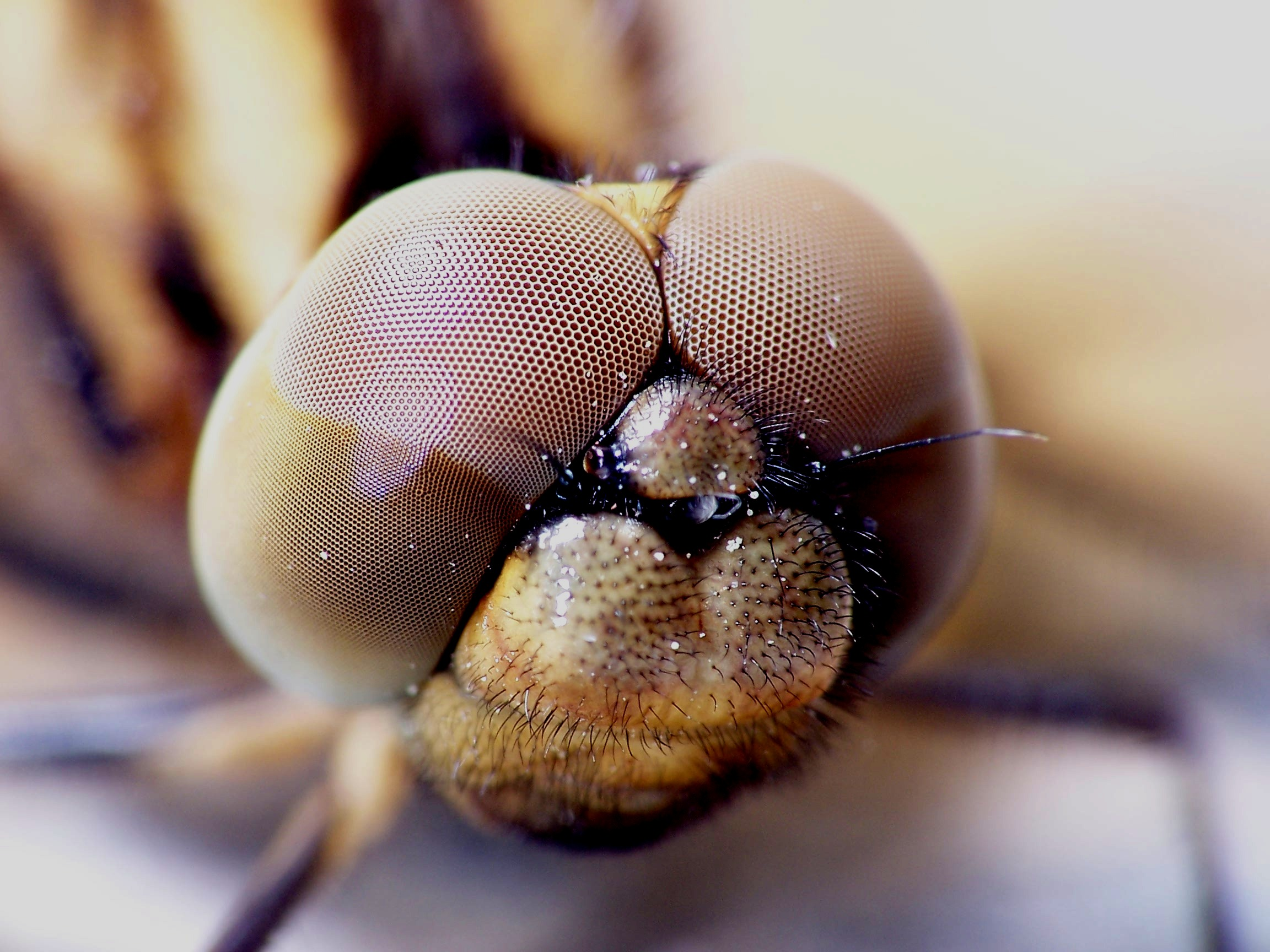 Eyes of a dragonfly.